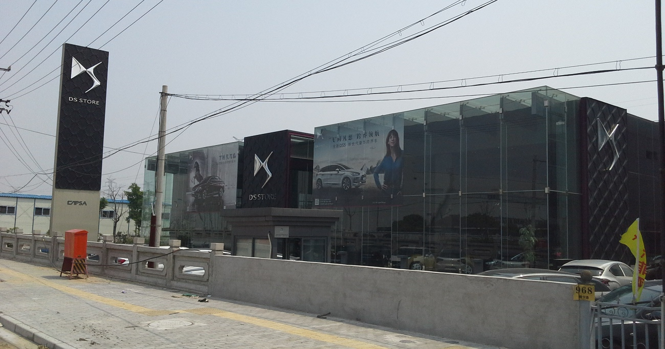 A DS Store on Kangning road in Shanghai, China.